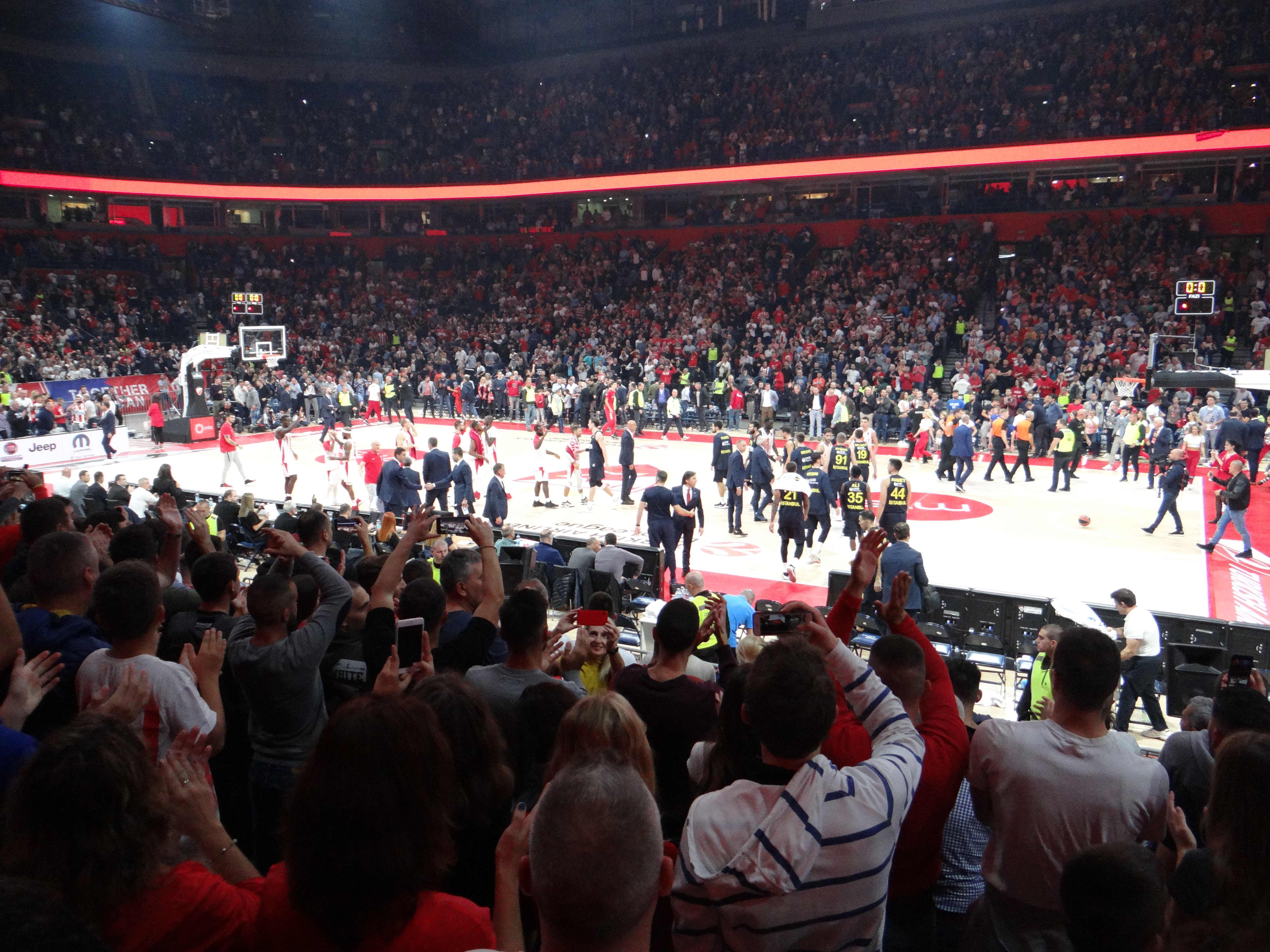 KK Crvena zvezda vs Fenerbahçe Men's Basketball EuroLeague 20191010